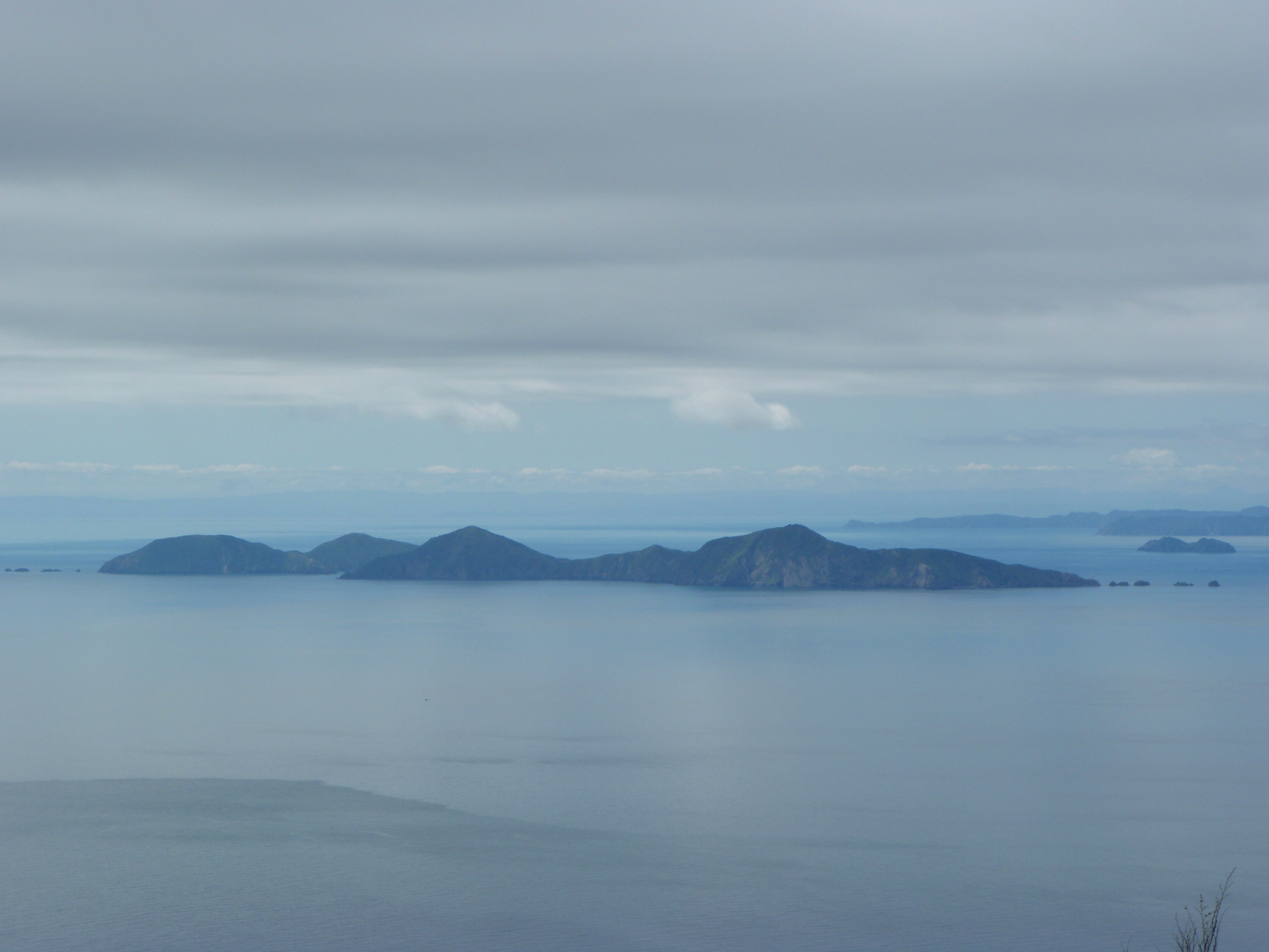 Chetwode islands, Marlborough Sounds, New Zealand, Looking to the east